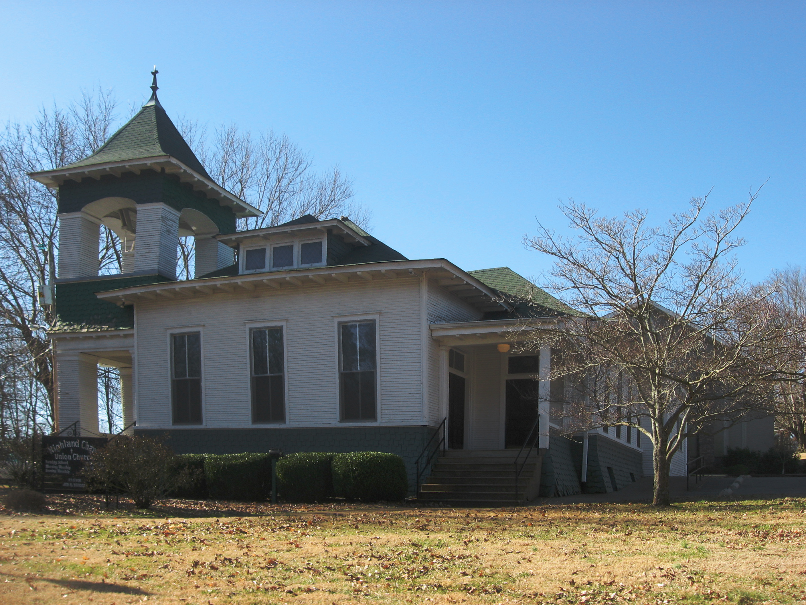 Front and northwestern side of the Highland Chapel Union Church, located at 1122 Highland Avenue in Ridgetop, Tennessee, United States. Built in 1906, it is listed on the National Register of Historic Places.